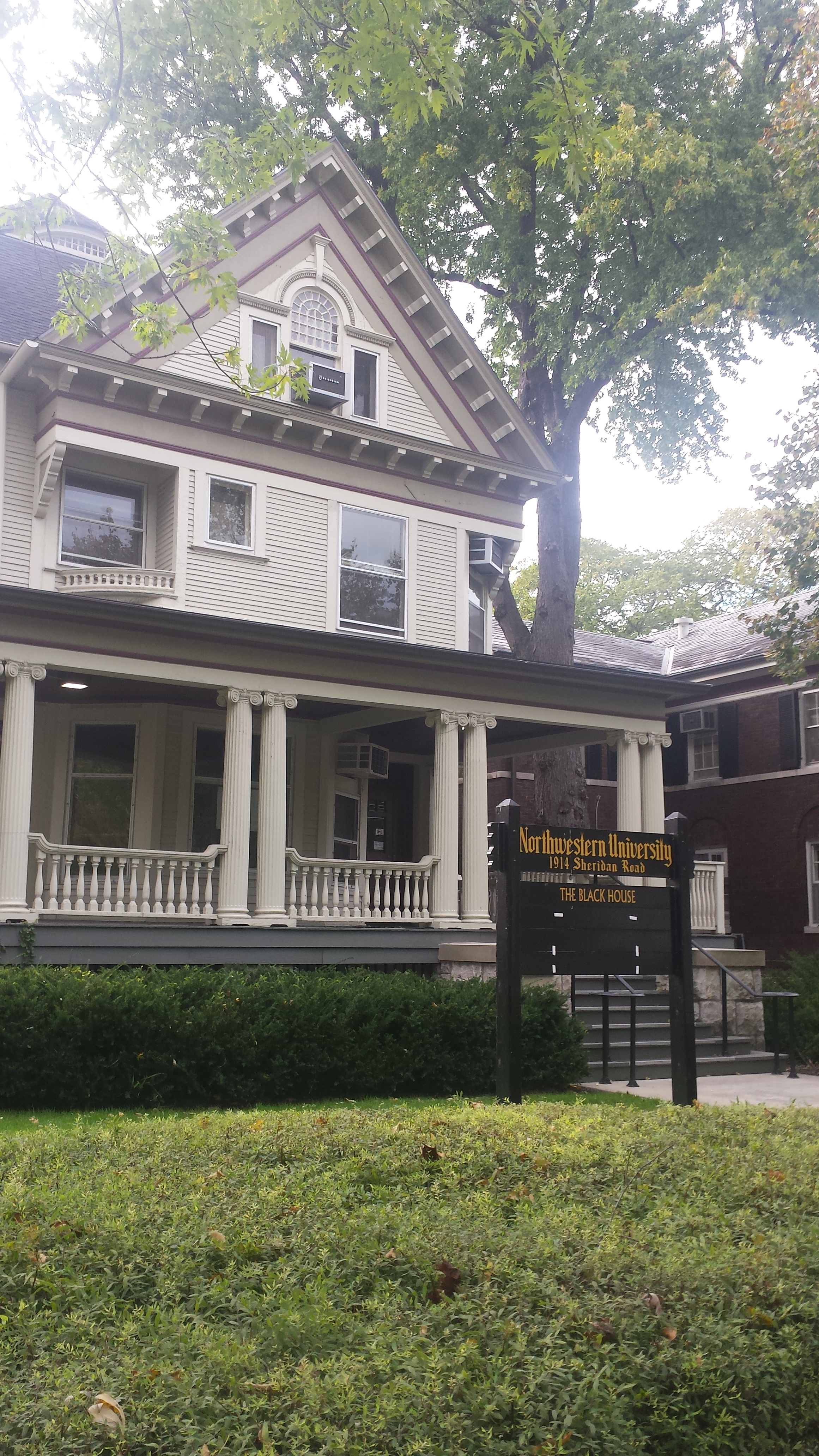 Northwestern University's Black House was created after students protested for a space in 1968. The building still stands today and serves as a hub for Northwestern's Black community